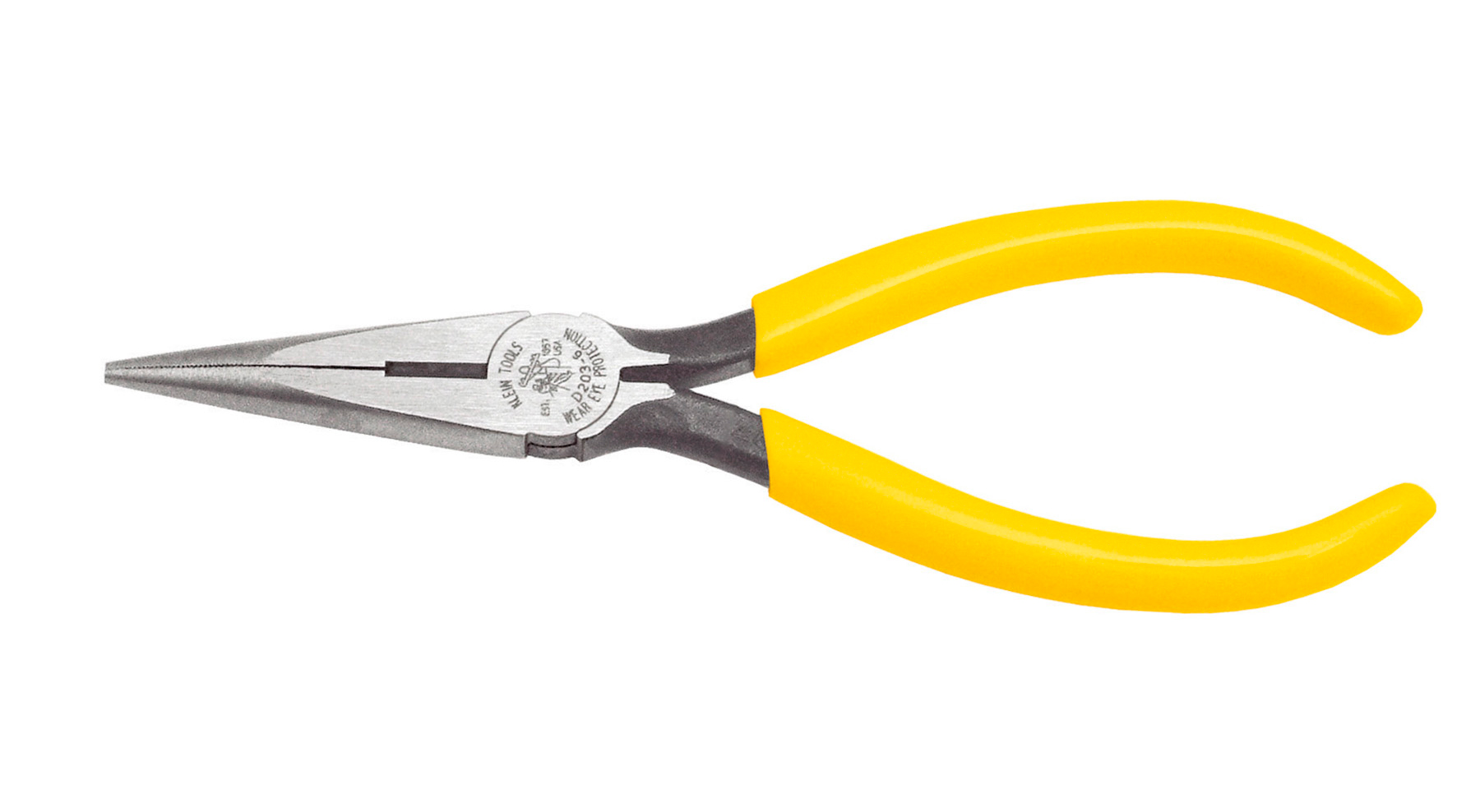 Pliers for gripping and manipulating Klein Tools D203-6